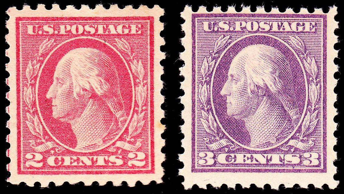 US Postage stamps, Washington 2 and 3 cents, 1916 issue, red, violet